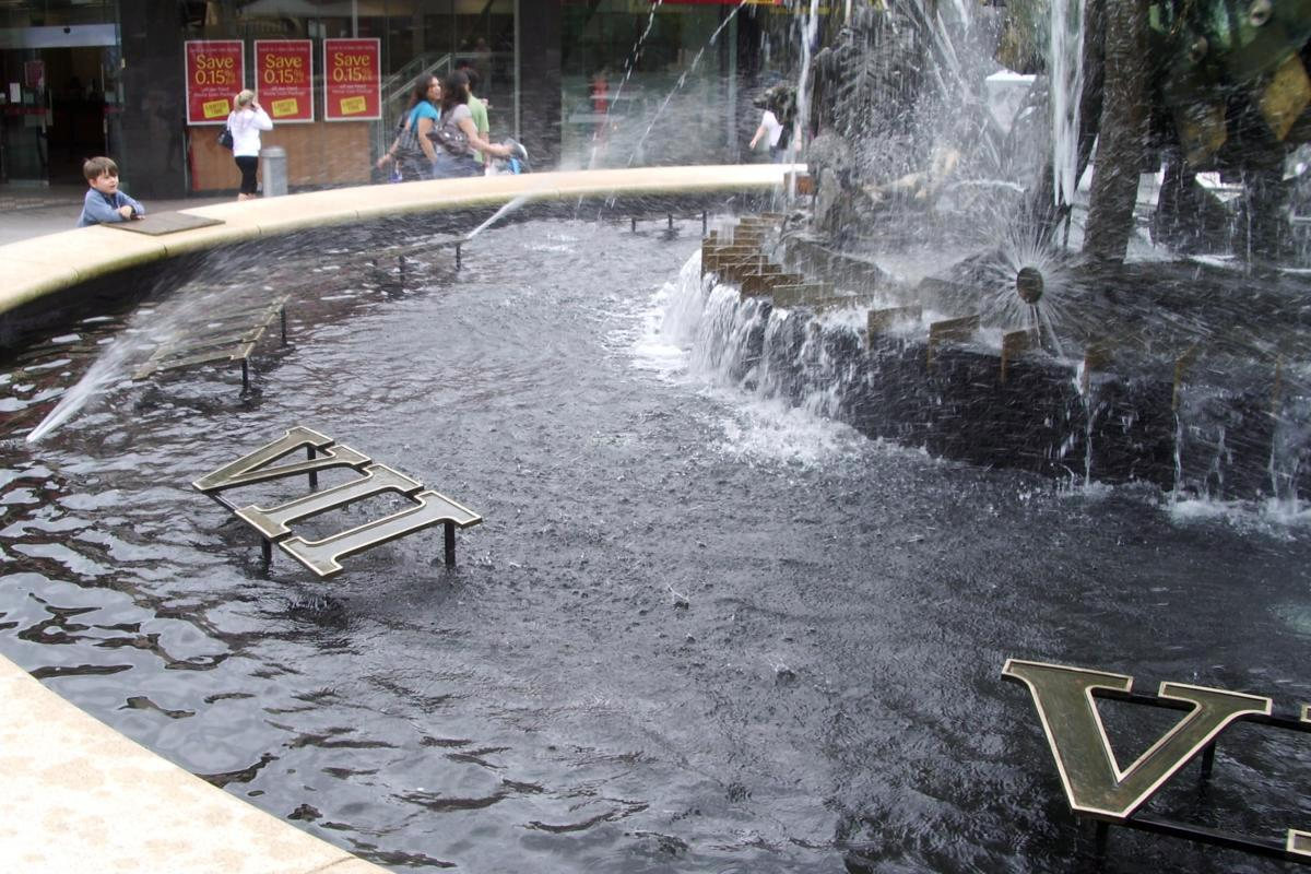 Hornsby water clock: detail of the Roman numerals in the pond.